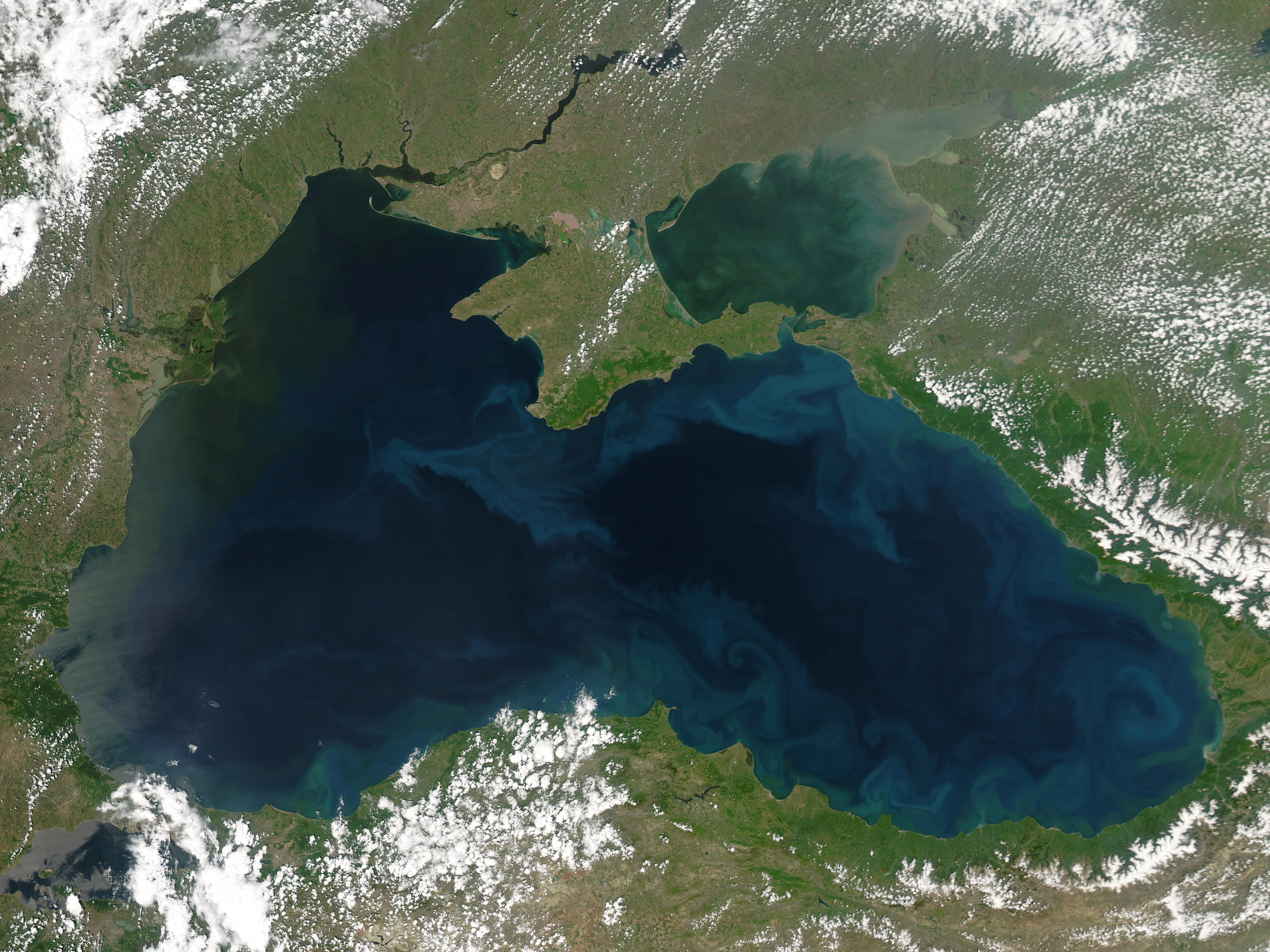 Black Sea, satellite image, May 2004. – Original image caption from Visible Earth collection of NASA: "Phytoplankton blooms and plumes of sediment form the bright blue swirls that ring the Black Sea in this Moderate Resolution Imaging Spectroradiometer (MODIS) image. Sediment flows into the sea through the vast network of rivers that empty into it. The sediment tints the water tan near the mouth of the river and green as the dirt diffuses through the water. In this image, sediment clouds the Sea of Azov in the upper right corner of the image. Two powerful rivers, the Don and the Kuban, flow into the shallow sea, depositing silt in the waters. Sediment is not the only thing that flows into the Black Sea on river water. Some of Europe’ largest rivers also deposit fertilizer from agricultural run-off in the Black Sea, and that feeds frequent phytoplankton blooms. Phytoplankton are microscopic plants that can be seen from space when large colonies grow in one place. Most of the agricultural run-off enters the Sea through the Danube River, the bright green area on the upper left side of the Sea. The water around the river’s mouths is tinted dark green, probably from the growth of surface phytoplankton. The phytoplankton blooms are a problem because their growth and decay can consume all of the available oxygen in a region, creating dead zones where fish cannot live. From the upper left corner, the countries around the Sea are Moldova, Ukraine, Russia, Georgia, Turkey, Bulgaria, and Romania. The Moderate Resolution Imaging Spectroradiometer (MODIS) on NASA’s Aqua satellite acquired this image on May 22, 2004." [data date 2004-05-22, visualization date 2004-05-25]